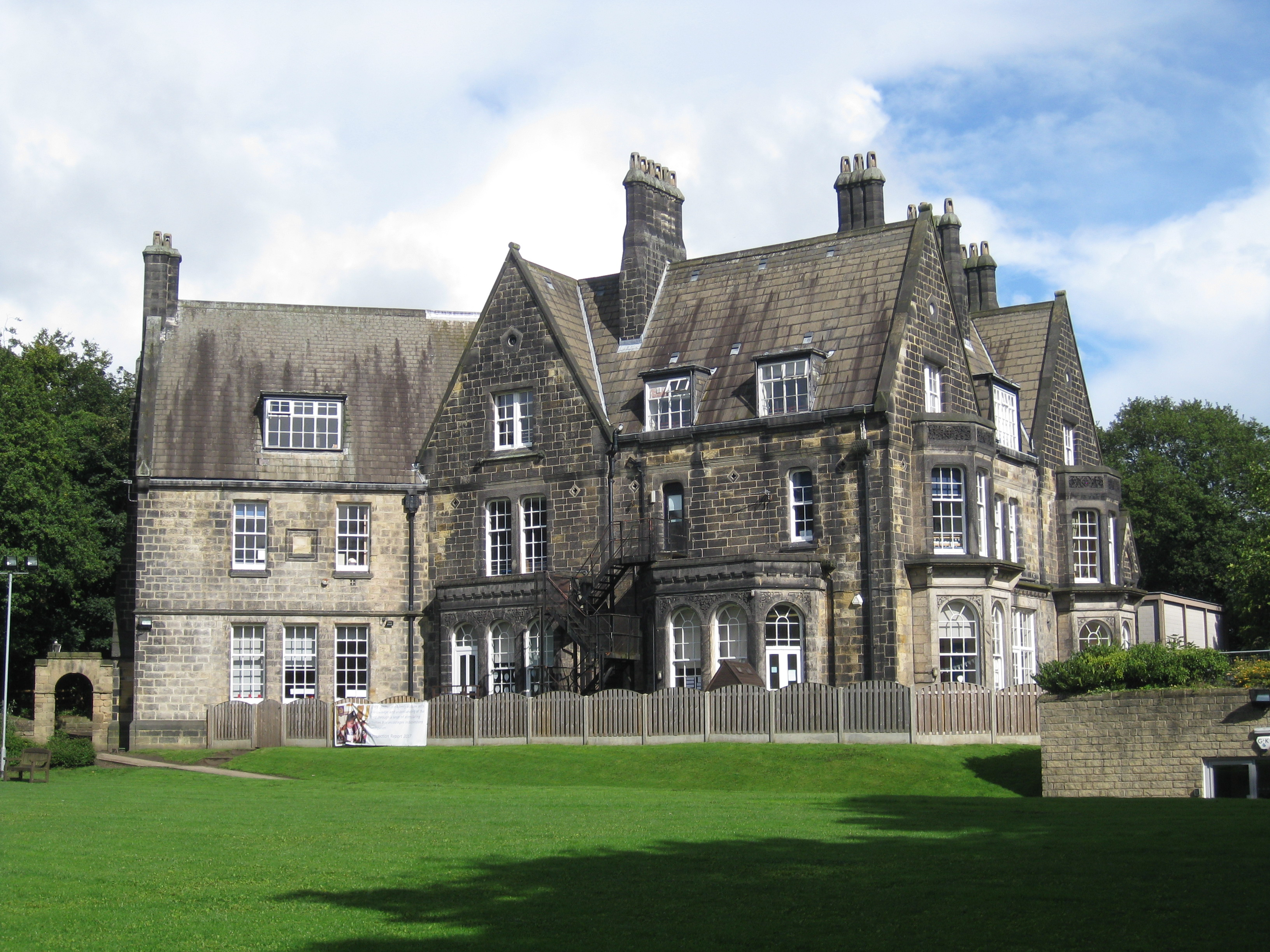 Moorlands School, Foxhill Drive, Weetwood Lane, Leeds LS16 5PF. Built 1863 as Fox Hill for William Tetley, by architect George Corson.